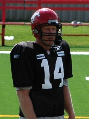 Quarterback Danny McManus at Calgary Stampeders training camp in 2006.